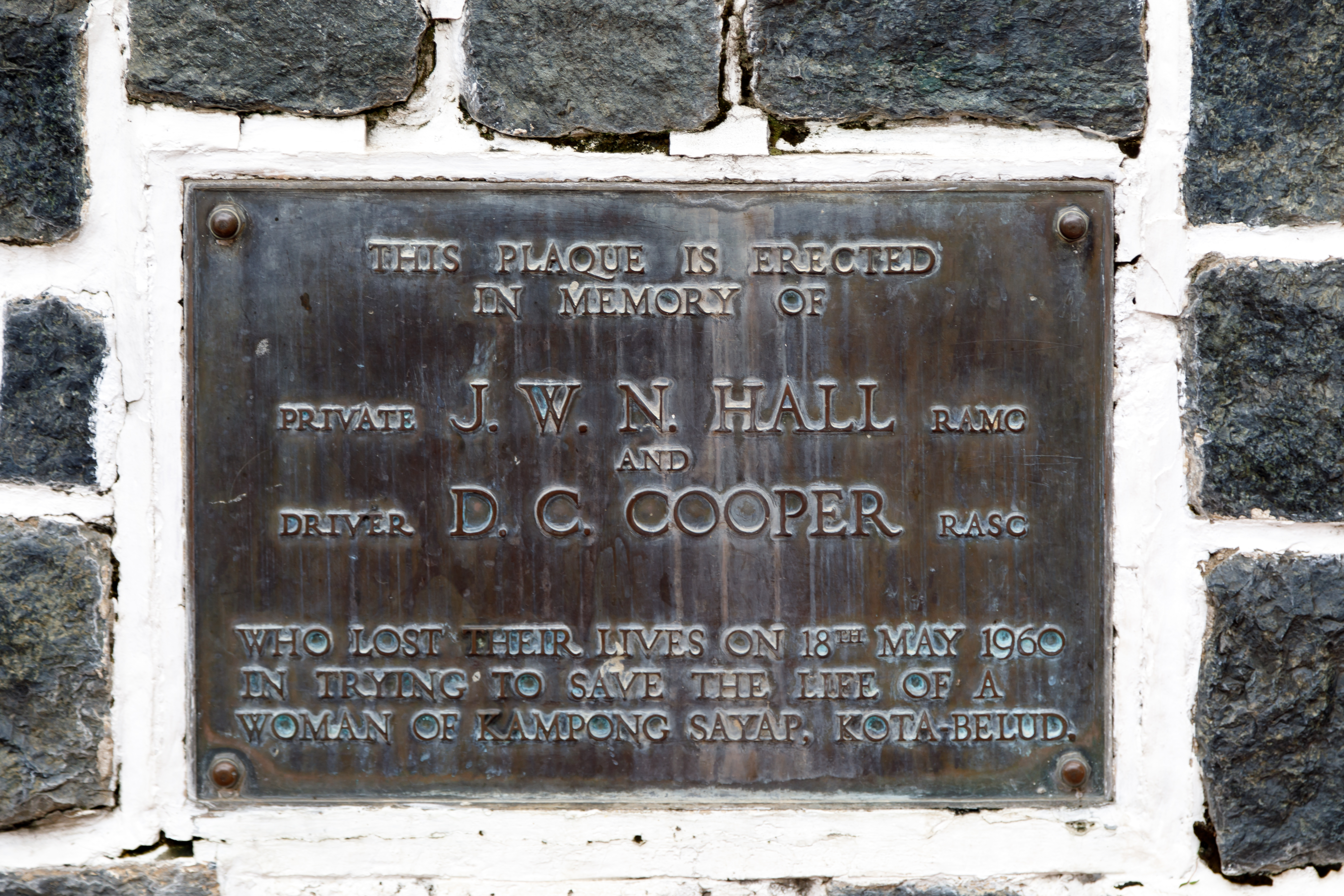 Tamparuli, Sabah: Memorial tablet, commemorating the two British Servicemen who drowned in Sungai Tamparuli on 18th May 1960 in trying to save the life of a woman of Kampong Sayap, Kota Belud.